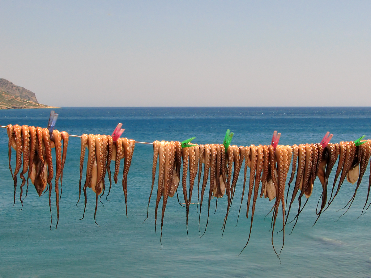 Octopus drying under the sun in Plaka, Crete.